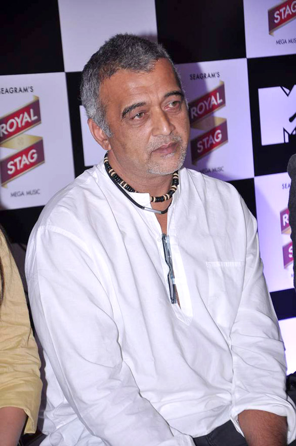 Lucky Ali at A R Rahman at 'MTV Unplugged Season 2' launch